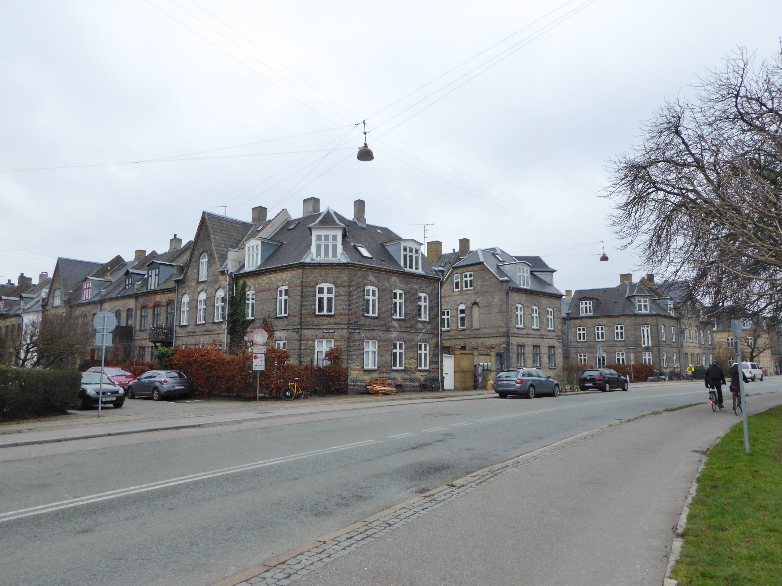 The street Øster Søgade at Høyensgade in Østerbro in Copenhagen.